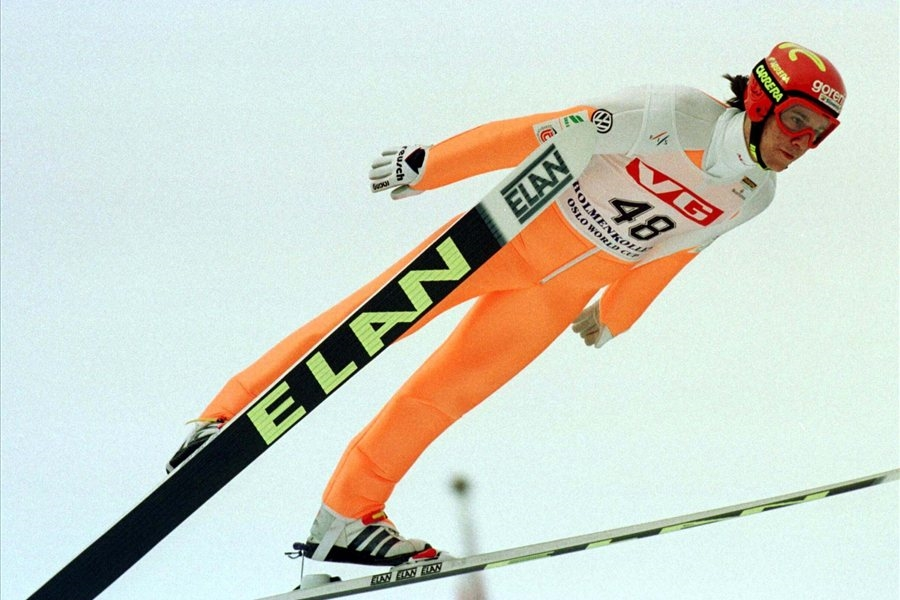 Peterka Holmenkollen 1998